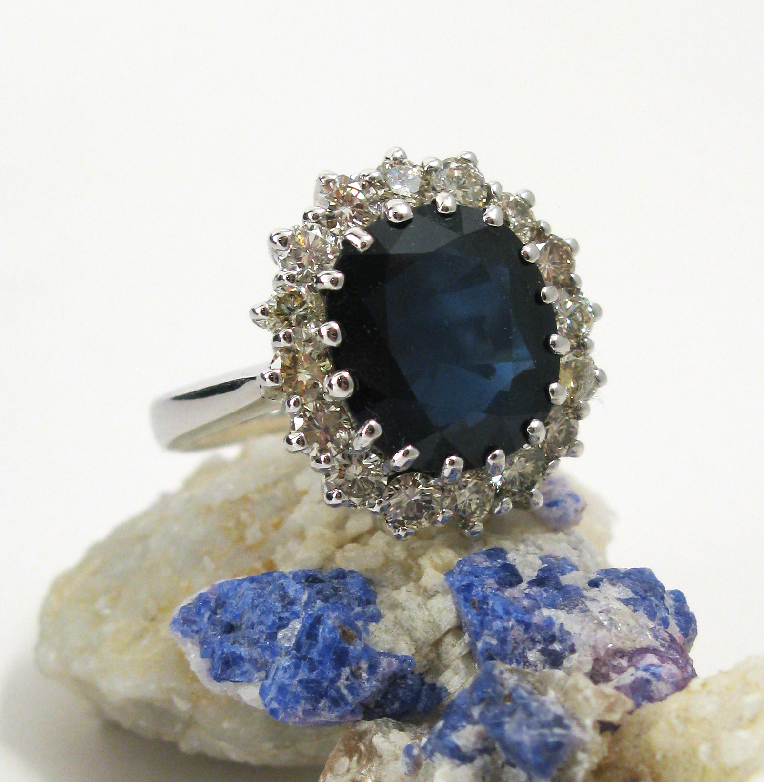 Does this look familiar? Nice Sapphire ring, large 7.7ct size surrounded by 16 beautiful fancy diamonds all set into 14ct white gold. Set size = 19.65mm x 17.82mm x 8.58mm. Ring size 58 / Q-R Further information or more images of individual pieces please contact us with image number: Ann Porteus Sidewalk Tribal Gallery 19-21 Castray Esplanade, Battery Point 7004 Hobart Tasmania Australia t: 613 6224 0331 ABN 99 900 255 141